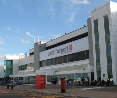 Cardiff International Airport